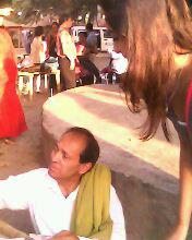 Vikram Seth is giving autographs